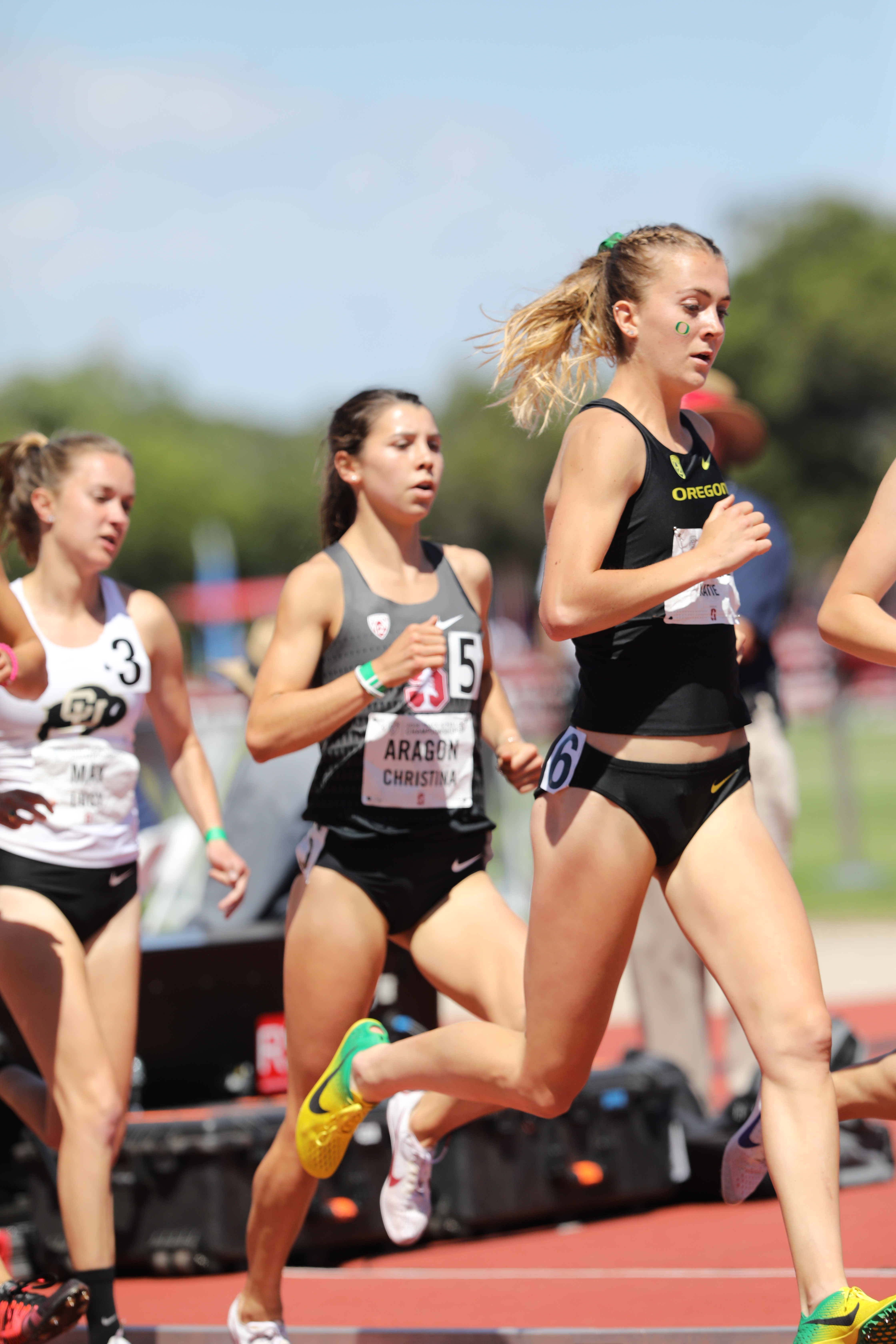 Christina Aragon follows Katie Rainsberger by Jenaragon94